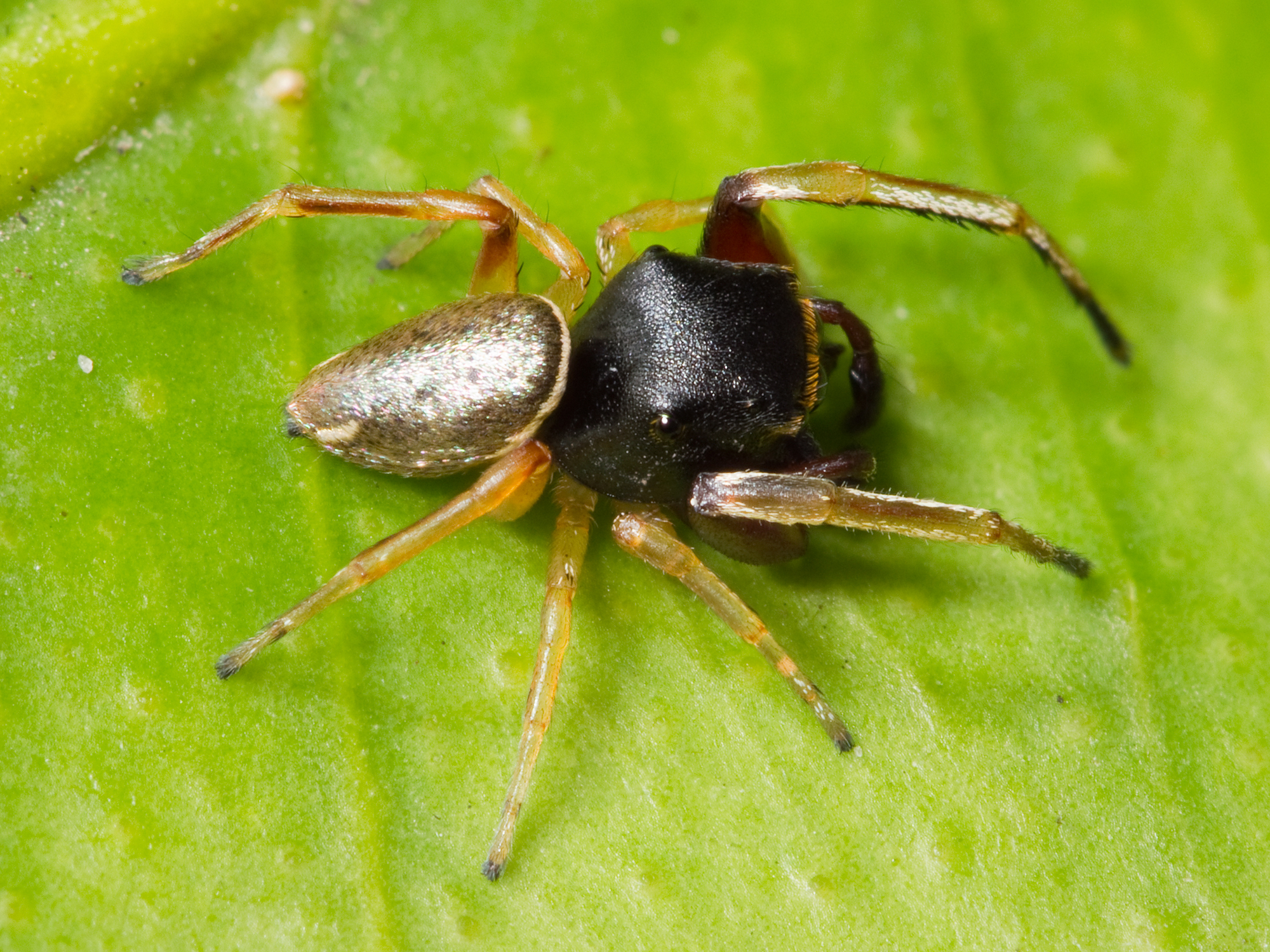 Mature male Zygoaballus rufipes jumping spider found at Reimers Ranch Park, Travis County, Texas.